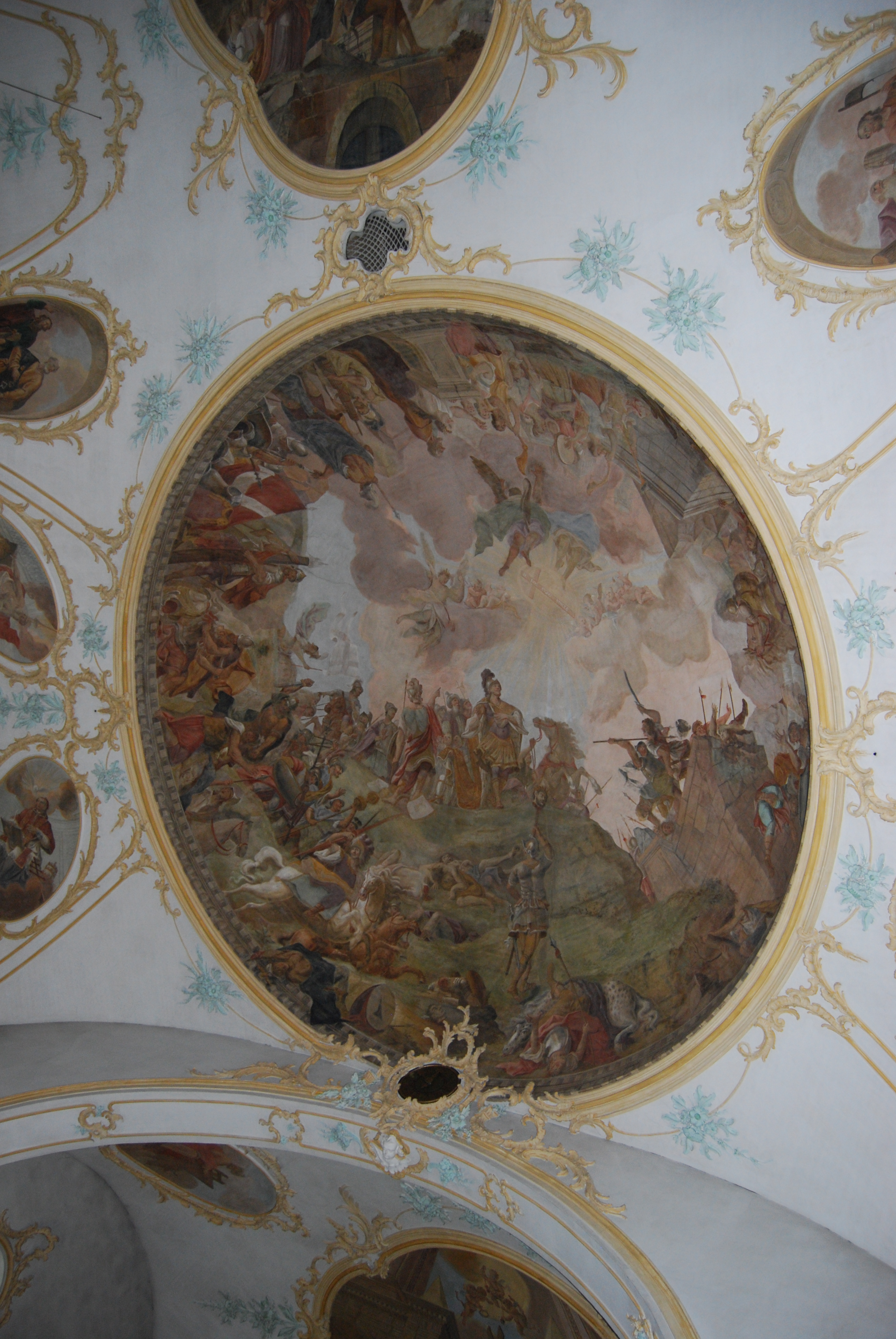 Catholic Holly Cross Church Peter and Paul at Kirchberg, canton of St. Gallen, Switzerland